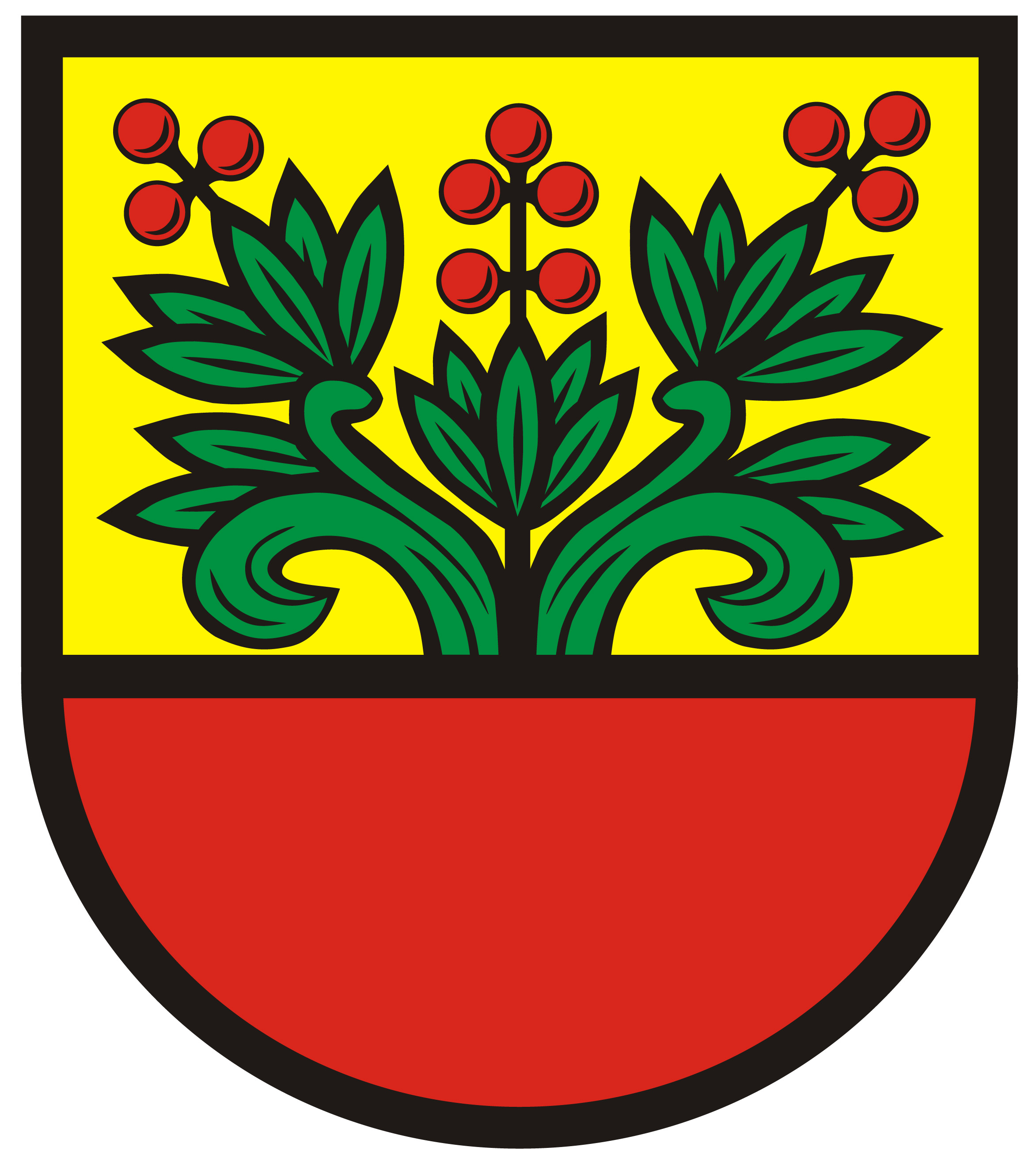 Coat of arms of the German village Bentfeld (city of Delbrück, Paderborn district).